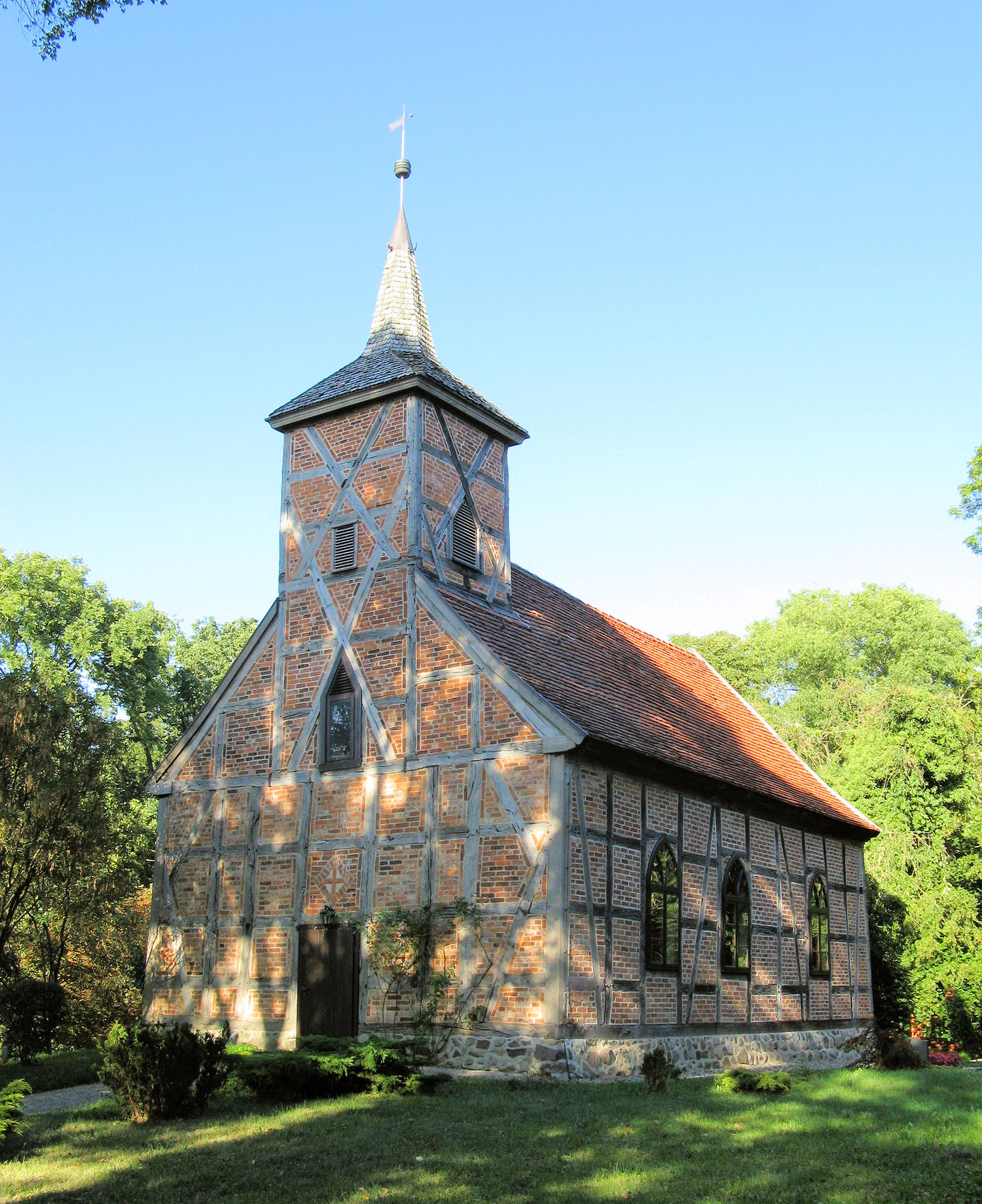 Church in Klein Plasten, disctrict Mecklenburgische Seenplatte, Mecklenburg-Vorpommern, Germany